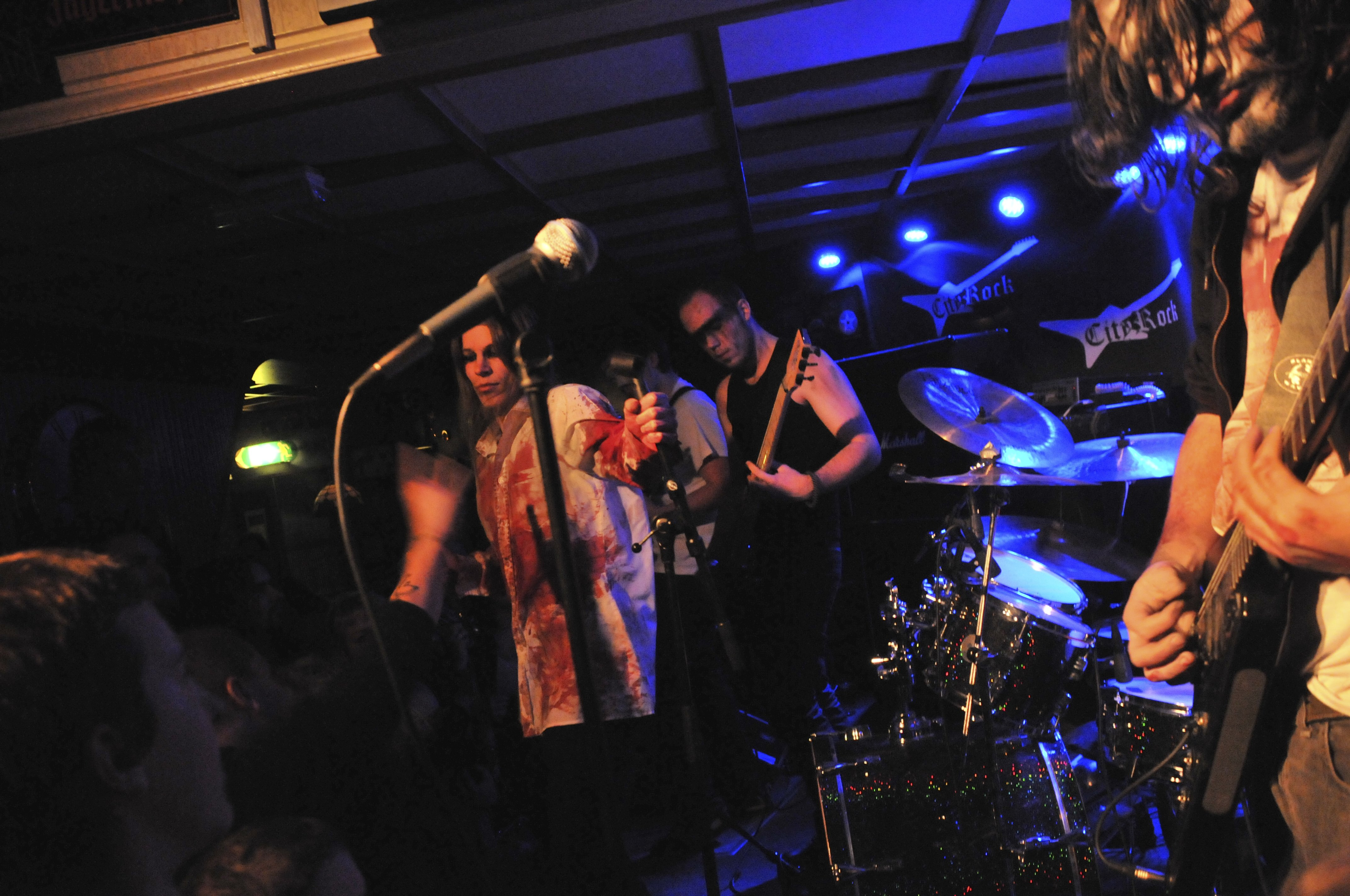 Lifelover live at Harry B James in Stockholm, Sweden.